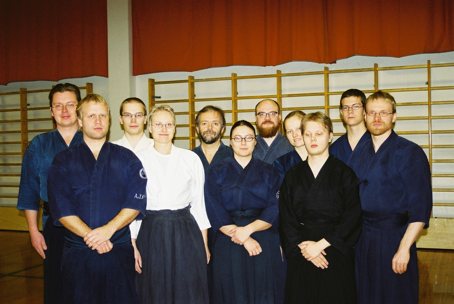 Finnish jodo camp 2002